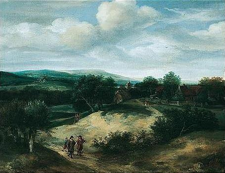 Landscape with huntsmen on a track before a village, signed and dated lower right: j.Koninck.f/1667 oil on canvas 52.5 by 67 cm.; 20 3/4 by 26 1/2 in.